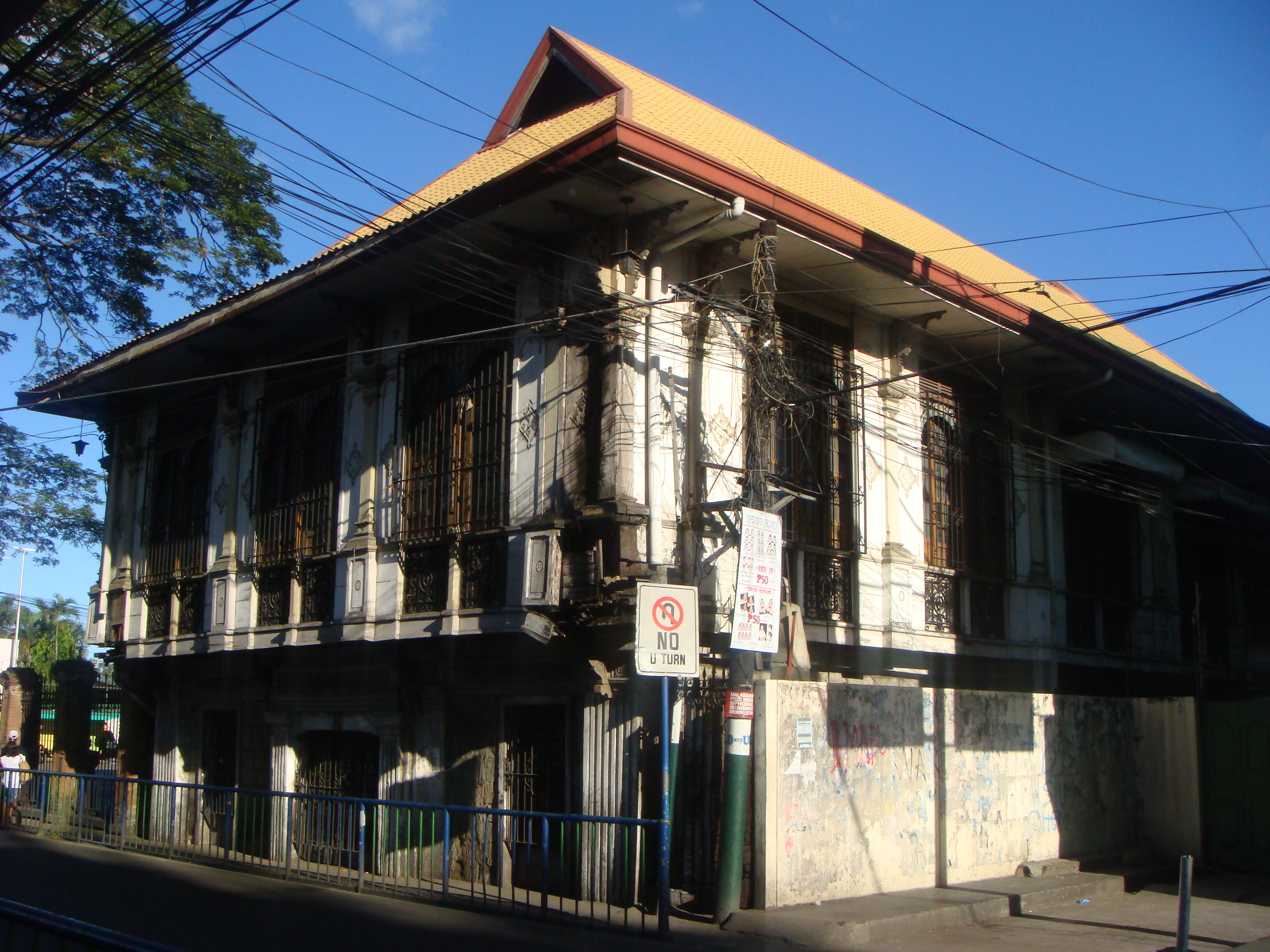 The century-old Sentro ng Kalinangan at Kasaysayan, the town's museum, was once the town's municipal hall.